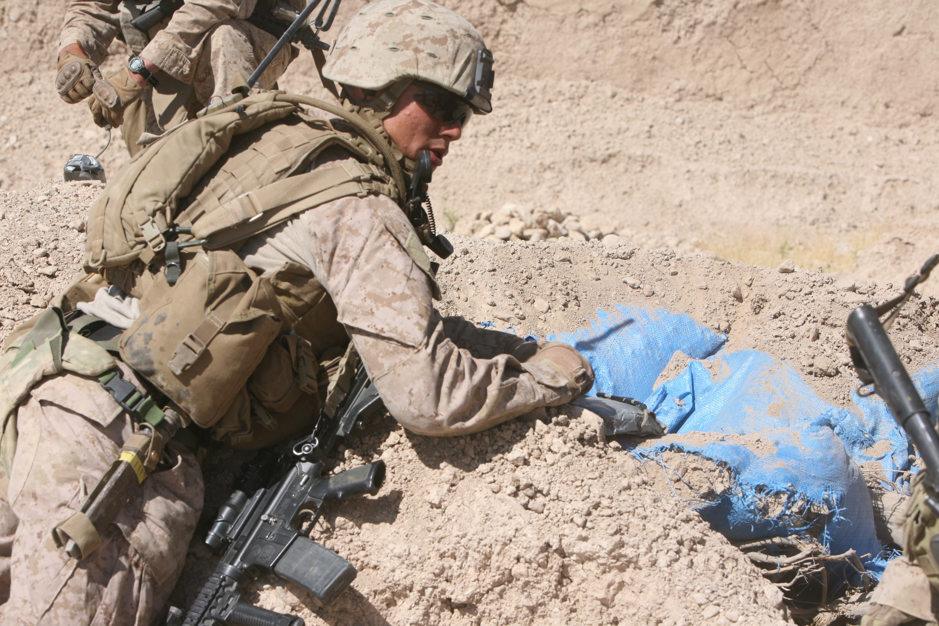 U.S. Marine Corps Sgt. William Carroll with Golf Company, 2nd Battalion, 5th Marine Regiment, Regimental Combat Team 6 places a composition C-4 explosive charge in an empty enemy bunker in Zamindawar, Helmand province, Afghanistan, May 27, 2012. Marines destroyed enemy fighting positions in the area to prevent them from being used against friendly forces. Unit: Regional Command Southwest DVIDS Tags: NATO; OEF; 2/5; ISAF; Golf Company; Regional Command (Southwest); Joint Operations Task Force; Sgt. William. Carroll